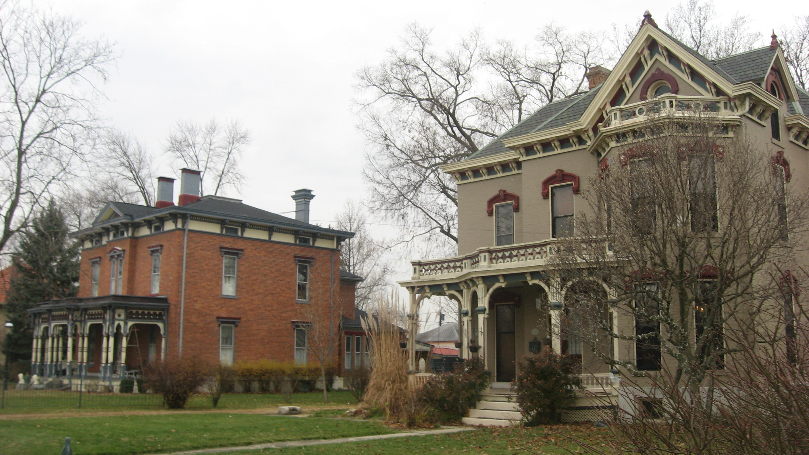 Houses on the western side of the 300 block of S. Miami Avenue in Franklin, Ohio, United States. These houses are part of the Mackinaw Historic District, a historic district that is listed on the National Register of Historic Places.